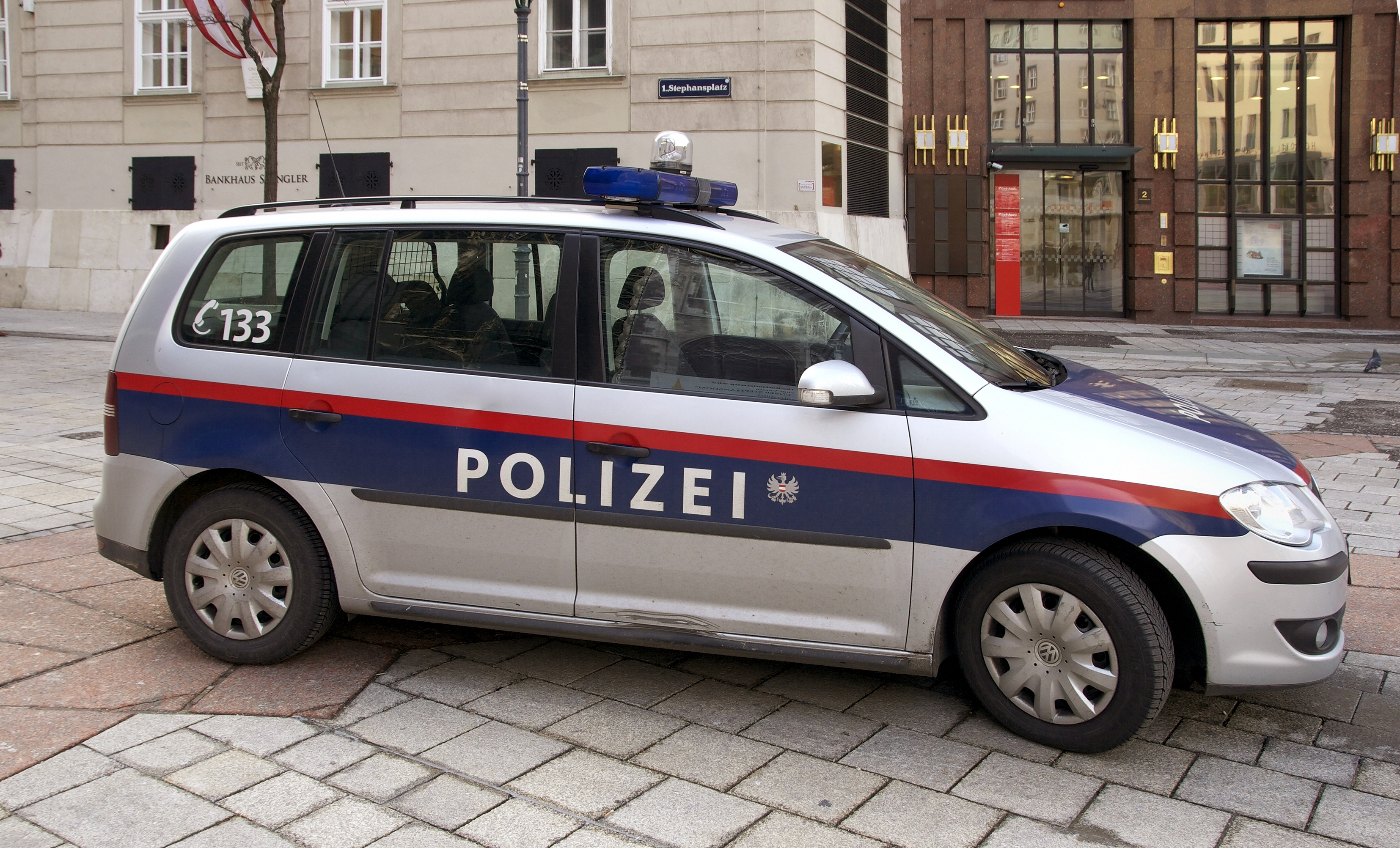 A car of the Austrian Federal Police (Volkswagen Touran), Stephansplatz, in Vienna, Austria.